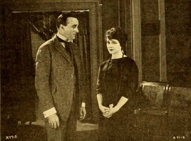 Still from the American drama film The Marriage Price (1919) with Wyndham Standing and Elsie Ferguson, on page 1019 of the February 22, 1919 Moving Picture World.